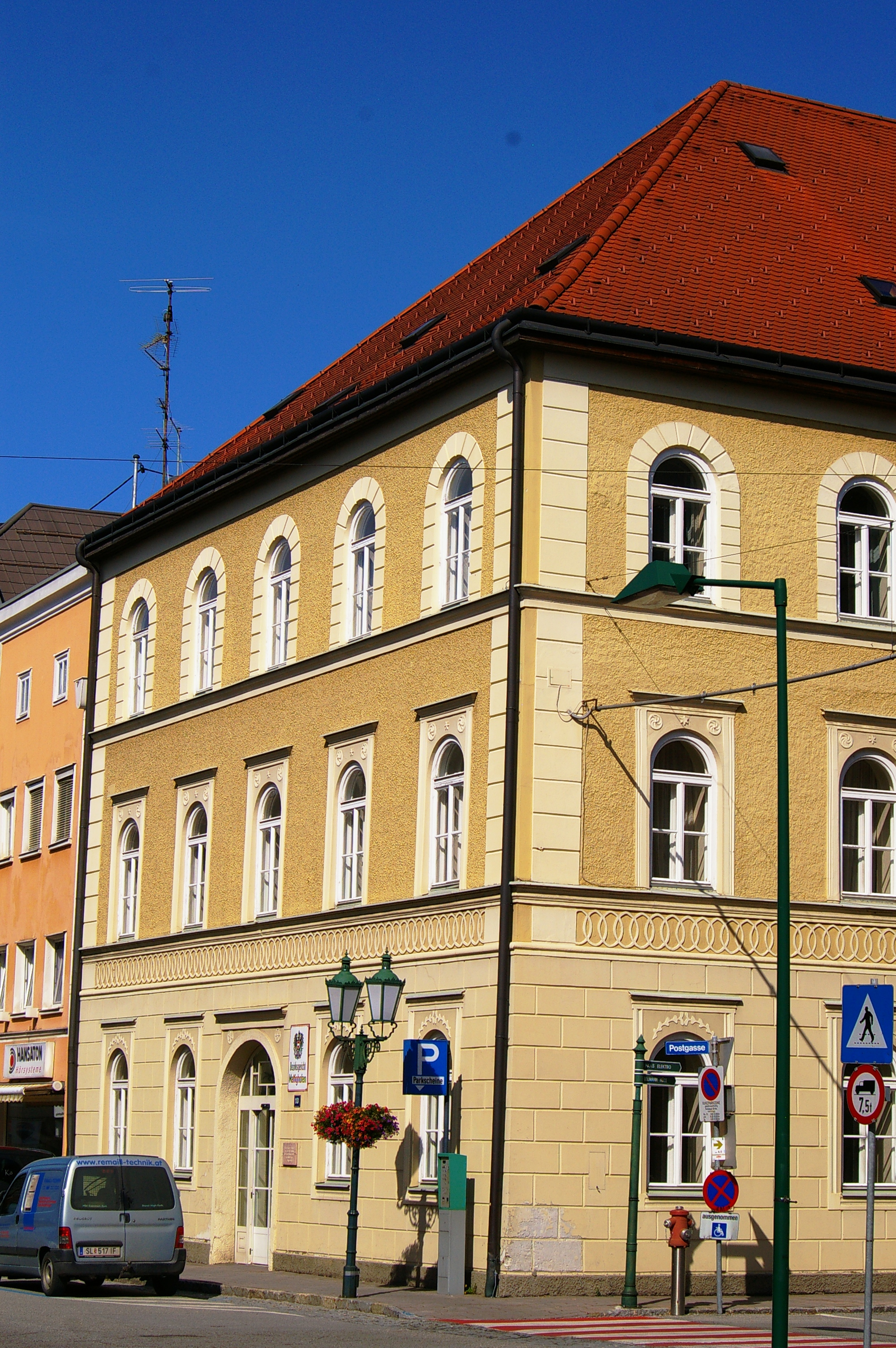 District court Mattighofen (Austria)